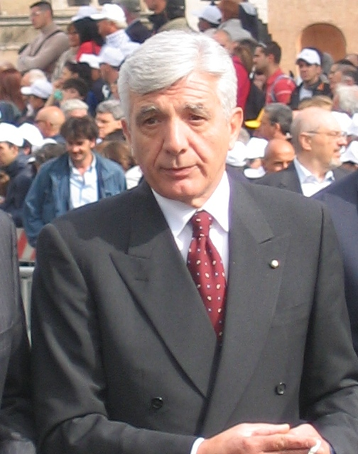 Photo of Army Parade in Rome, 2 june 2006, Festa della Repubblica Italiana. The Chief of Police, Giovanni De Gennaro.